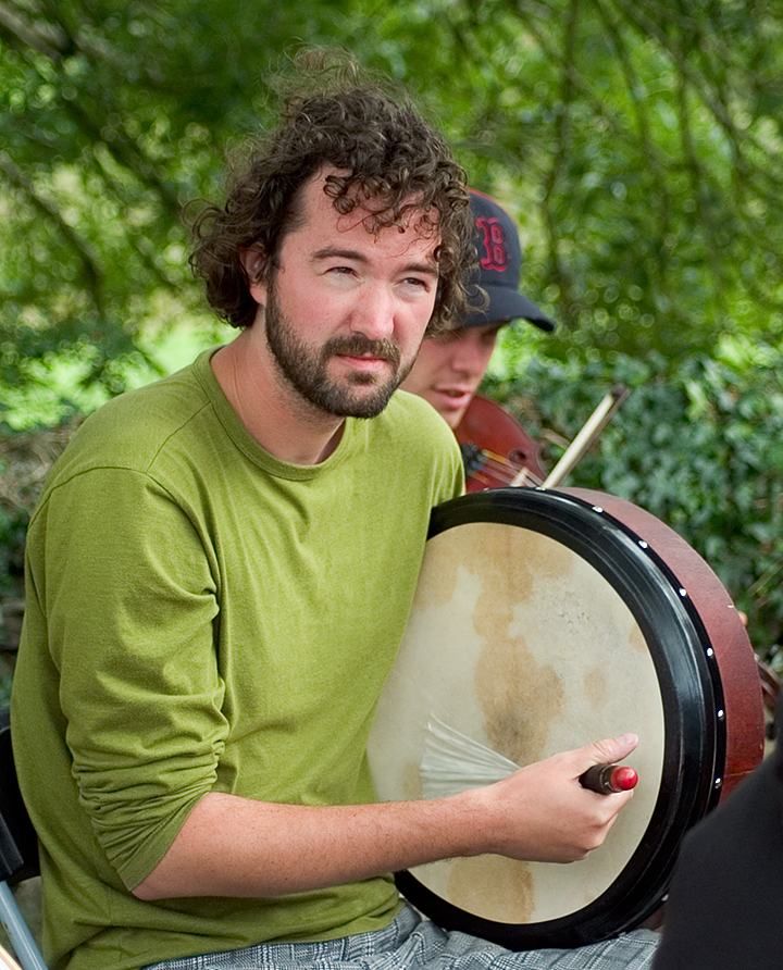 A man playing a bodhrán, an Irish frame drum. - Bodhrán being played by Vincent Pompe van Meerdervoort (Harmony Glen) with a brush-ended beater.